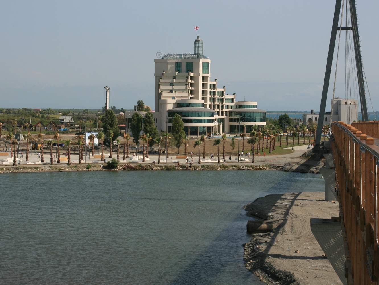 Anaklia, Georgia